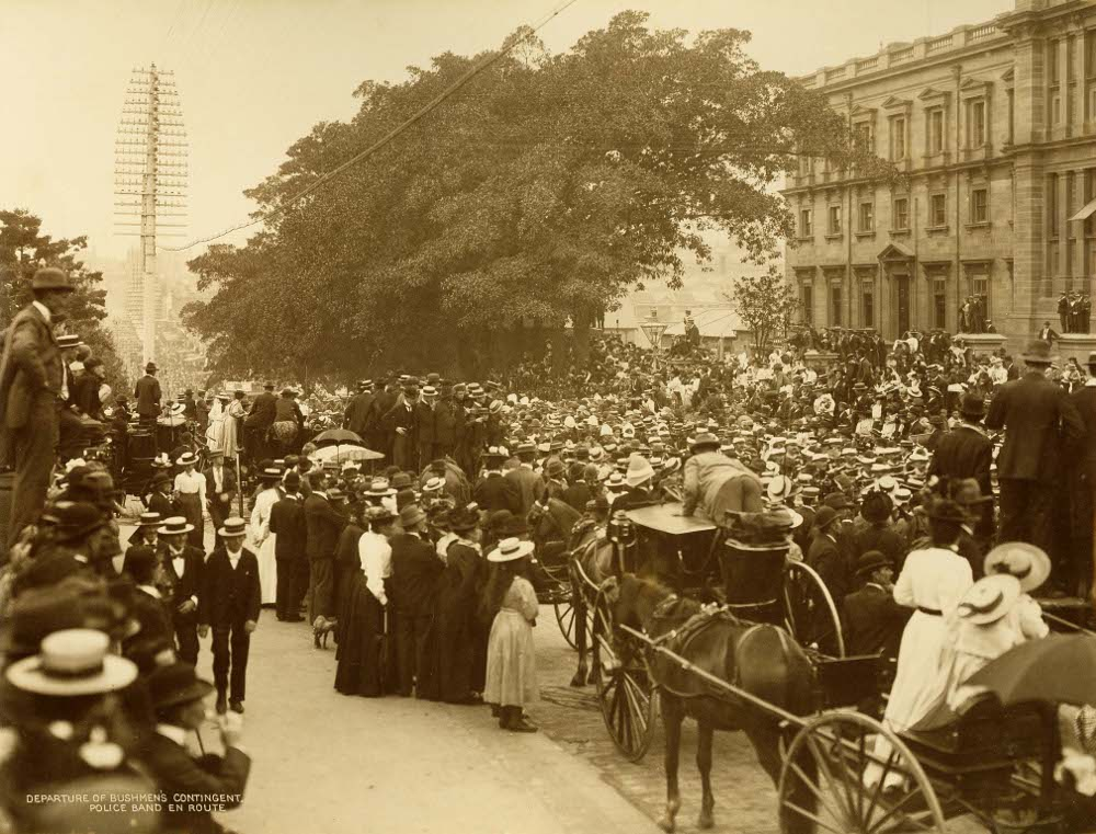 Departure of Bushmen's contingent. Police band en route Dated: 28/02/1900 Digital ID: 1254_a011_a011000017R This series comprises photographs of the New South Wales Bushmen's Contingent departing for active service in the Cape Colony during the Boer War. Rights: We'd love to hear from you if you use our photos/documents. Many other photos in our collection are available to view and browse on our website using Photo Investigator.